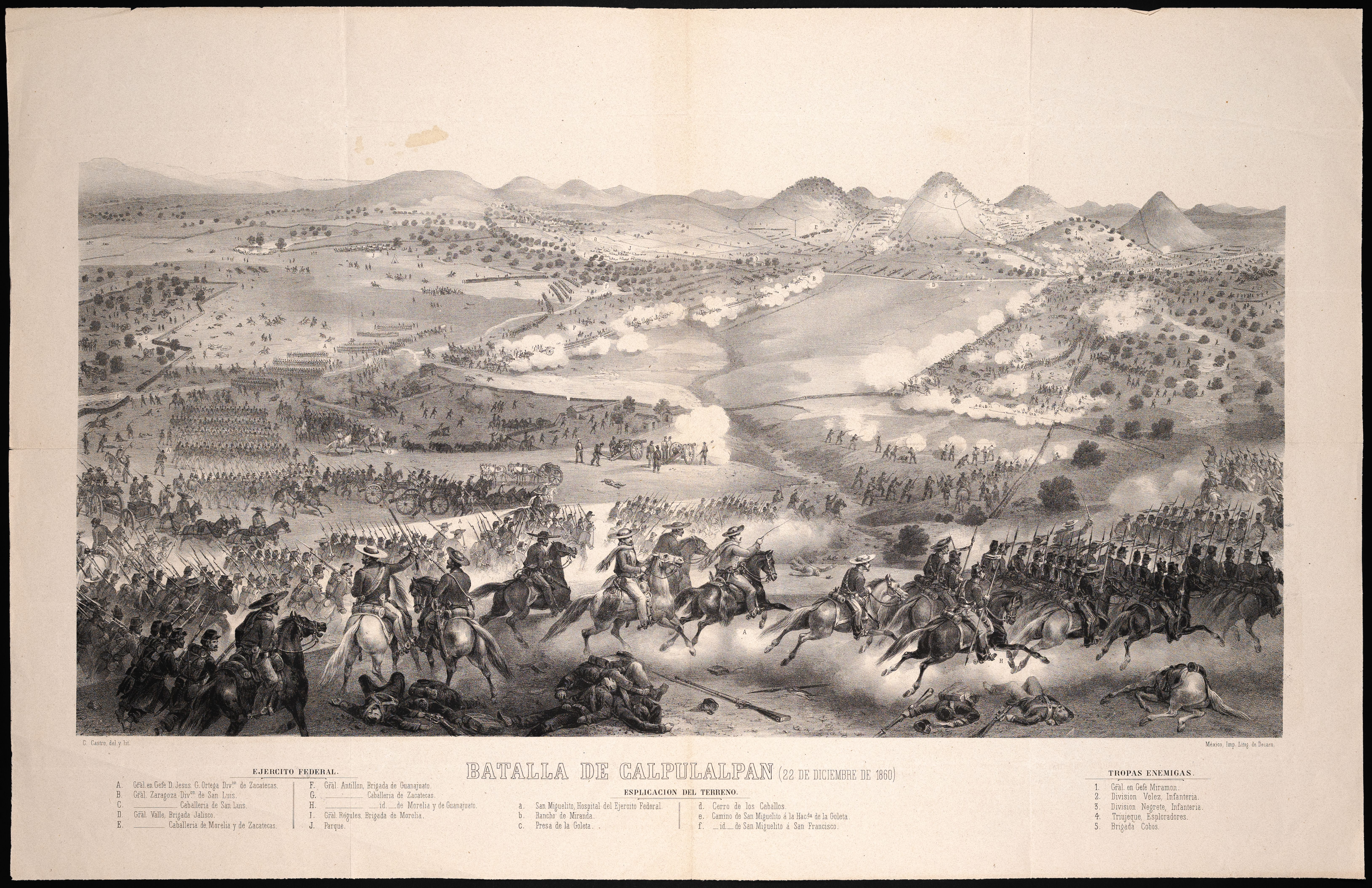 Batalla de San Miguel Calpulalpan Museo de las Constituciónes